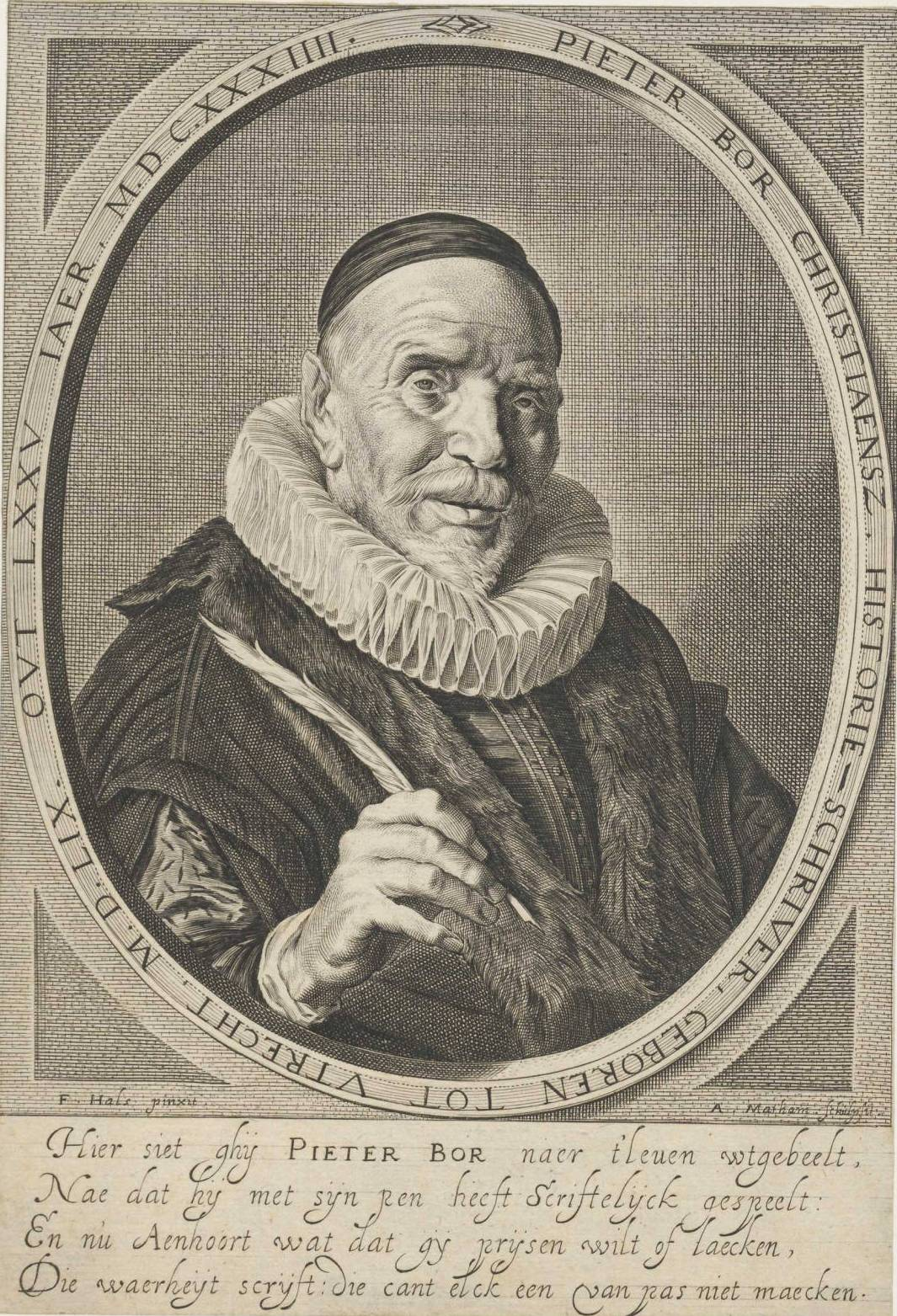 Portrait of Pieter Bor Christiaensz (1559-1635) from the first volume of his book, The Origin of the Dutch Wars, dated 1634, with a poem in Dutch by Samuel Ampzing after a portrait by Frans Hals (lost in a fire in the Museum Boymans in 1864).